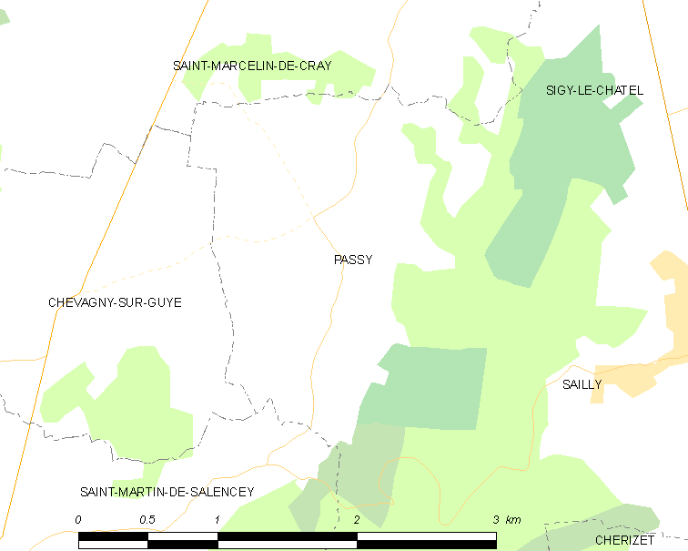 Map of French municipality